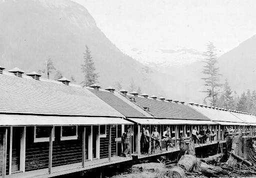 Exterior of workers' huts at 120 man logging camp, Kingcome River